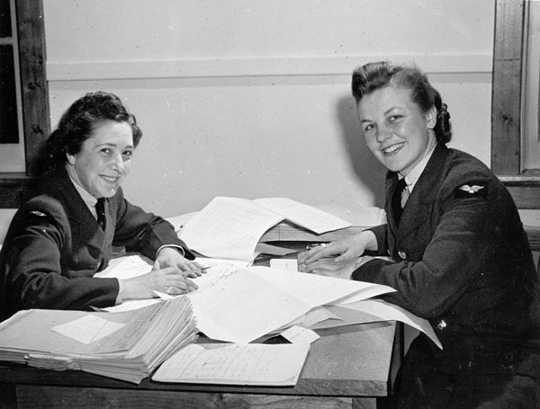 Unidentified timekeeping personnel of the RCAF Women's Division, No. 2 Service Flying Training School